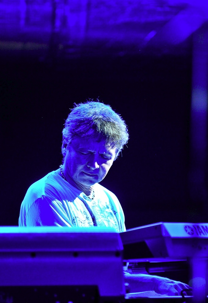 PSP - Phillips Saisse Palladino Simon Phillips: drums & percussions Pino Palladino: bass Philippe Saisse: keyboards Crossroads Live Club, Roma 22.11.2009